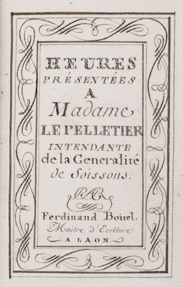 Title page of Heures pour Mme Le Pelletier, by Ferdinand Boitelle